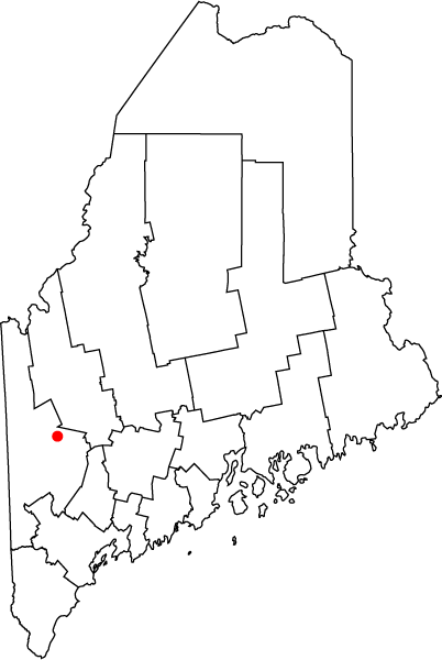 Map of the state of Maine with County Outlines, highlighting Rumford.